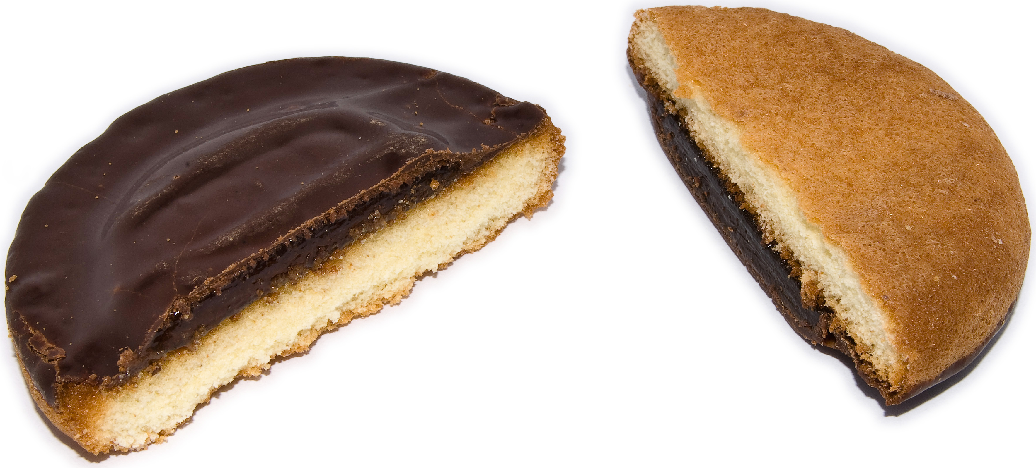 Jaffa Cake carefully cut in half. Photo taken by myself, and processed using Adobe Photoshop CS3. Released to public domain.